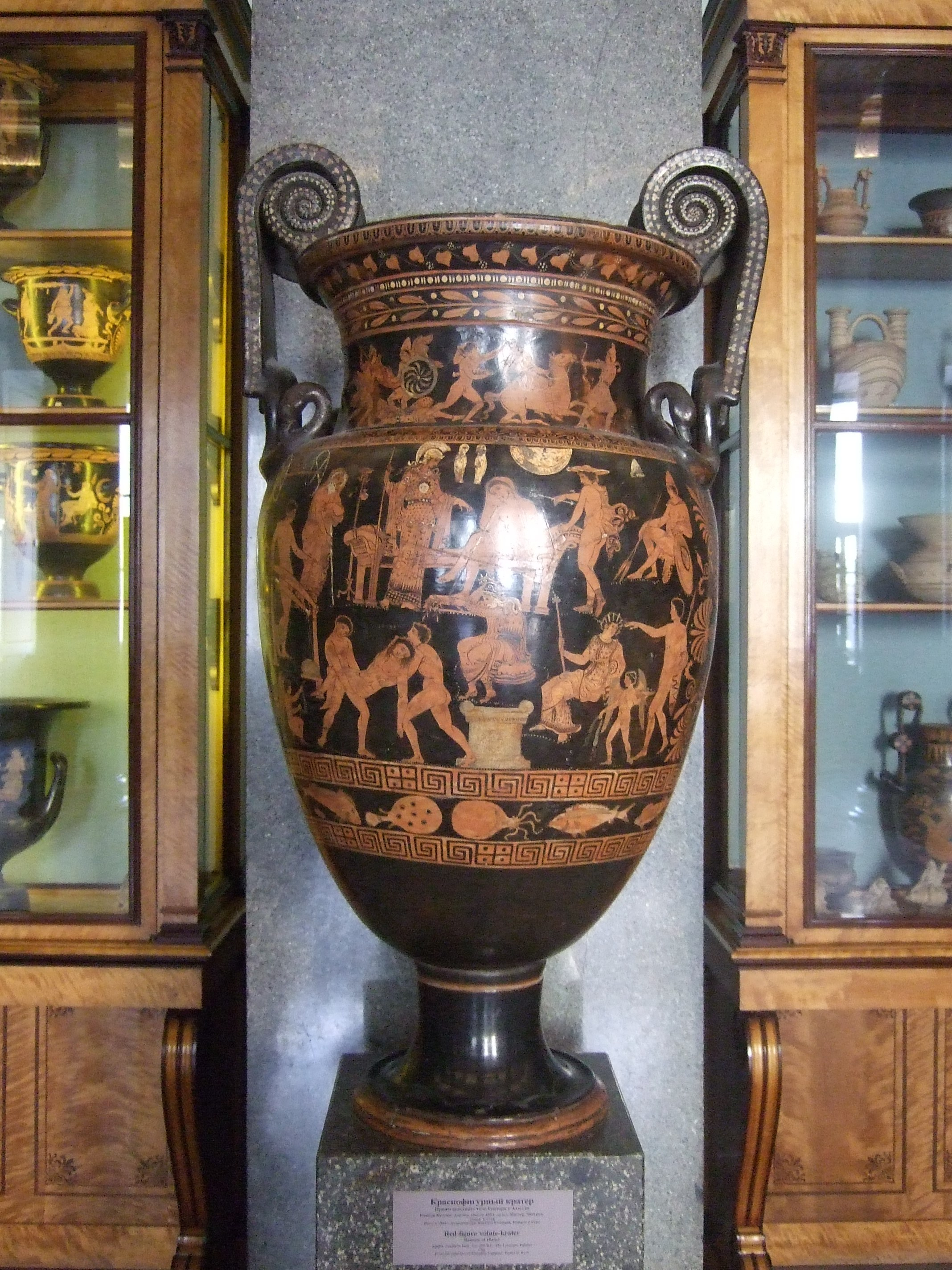 Herimitage Saint Petersburg: Red-figure volute-krater from Apulia, Southern Italy, ca. 350 B.C, The Lycurgus Painter.